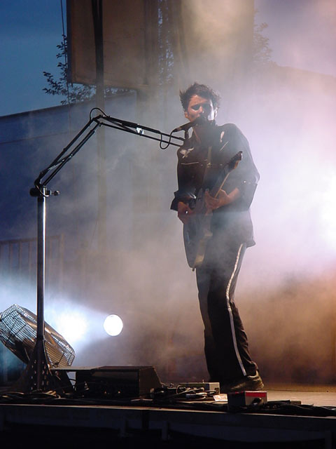 Muse Live at the Curiosa Festival, Randalls Island, New York 7-31-04